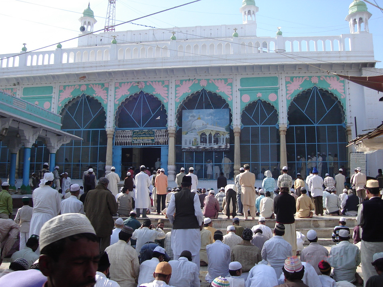 Dargah Shareef of Khwaza Moinuddin Chishti Ajmer (India)